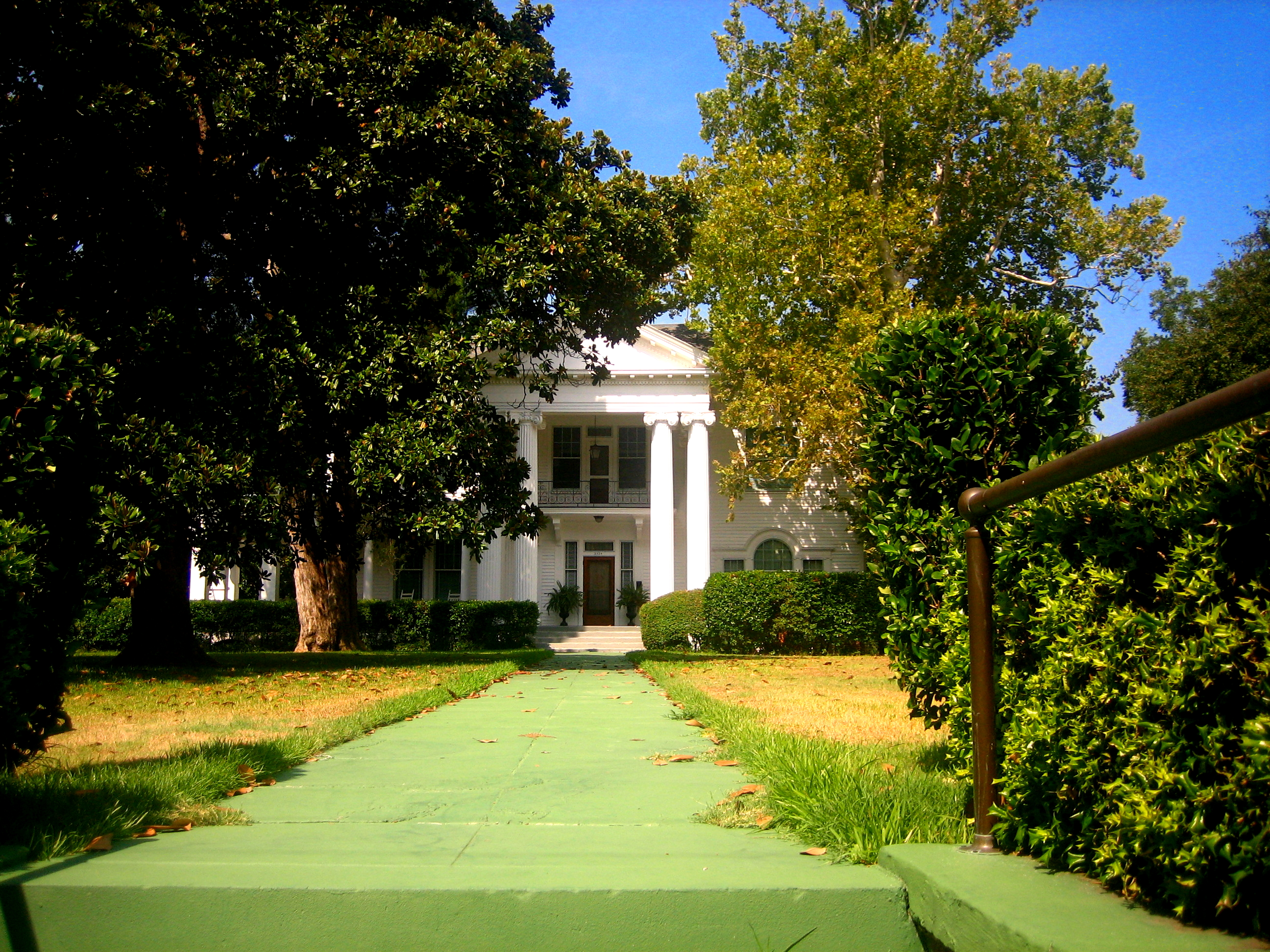 I took photo on Aug. 9, 2008.Billy Hathorn (talk) 00:49, 23 August 2008 (UTC)